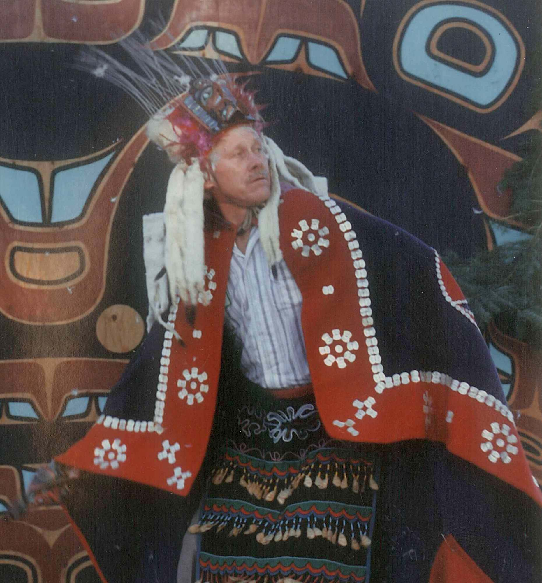 A photo taken by me during a lecture given by the anthropologist Bill Holm in July 1987, showing Bill Holm giving a demonstration of his interpretation of the the echo mask dance. He is wearing a button blanket.